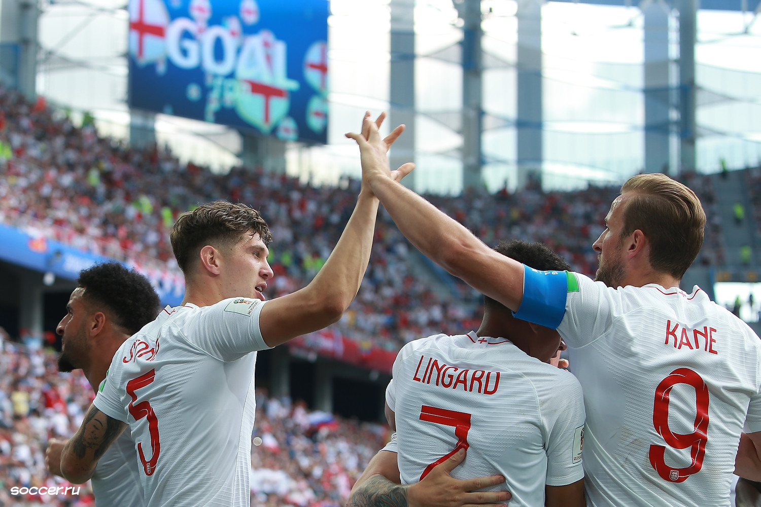 England vs Panama match